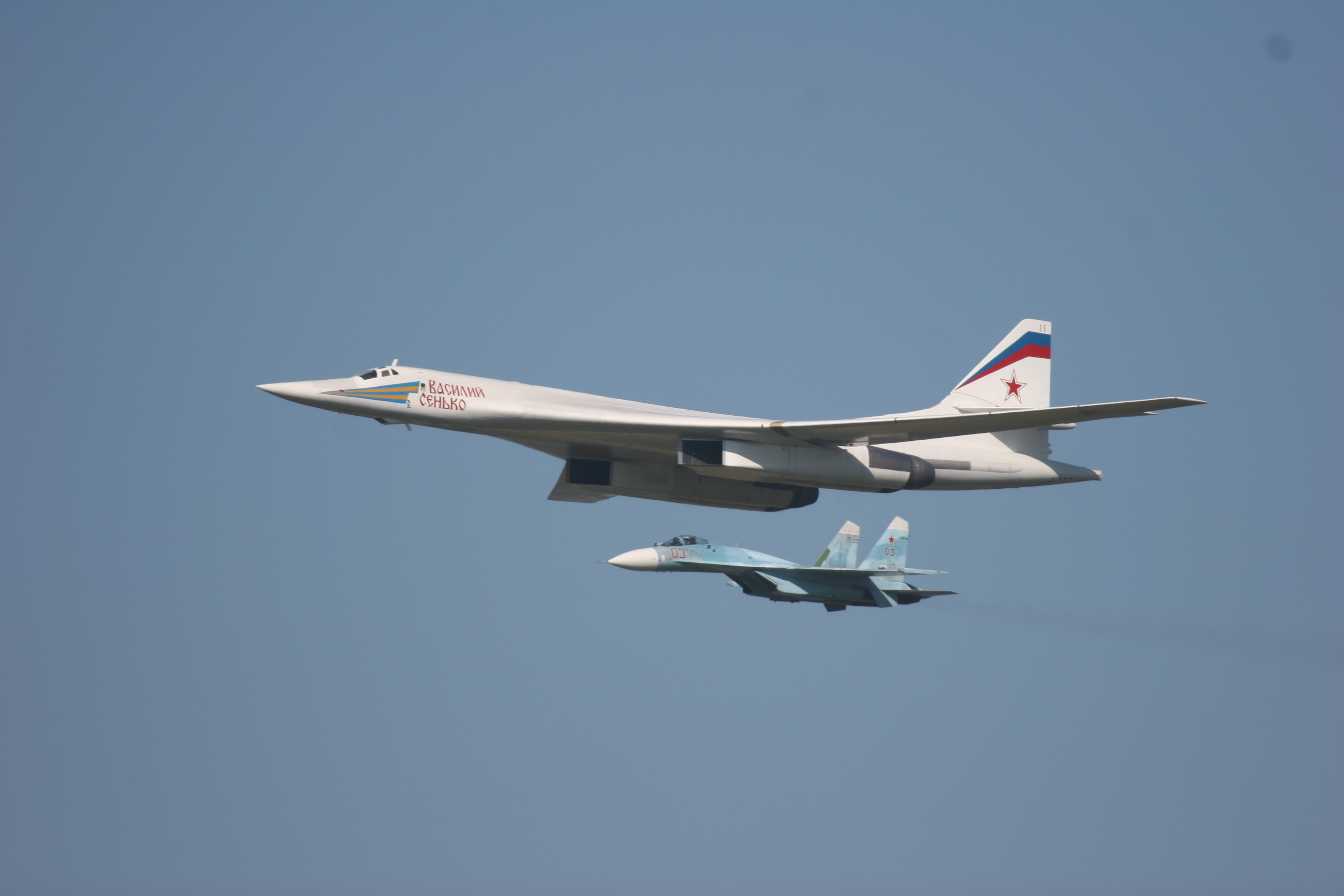 Tupolev Tu-160 Blackjack ("Vasily Sen'ko") with Sukhoi Su-27 Flanker at 2007 Russian Air Force Day celebration in Monino